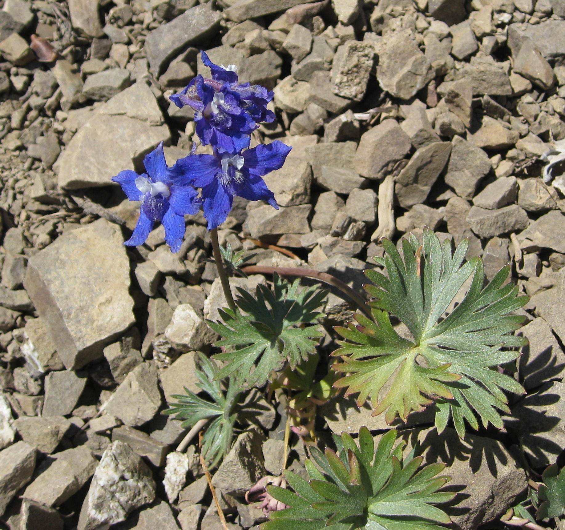 Delphinium glareosum , Olympic Larkspur Delphinium tend to growy on sunny rock slide sort of slopes. i100716 053